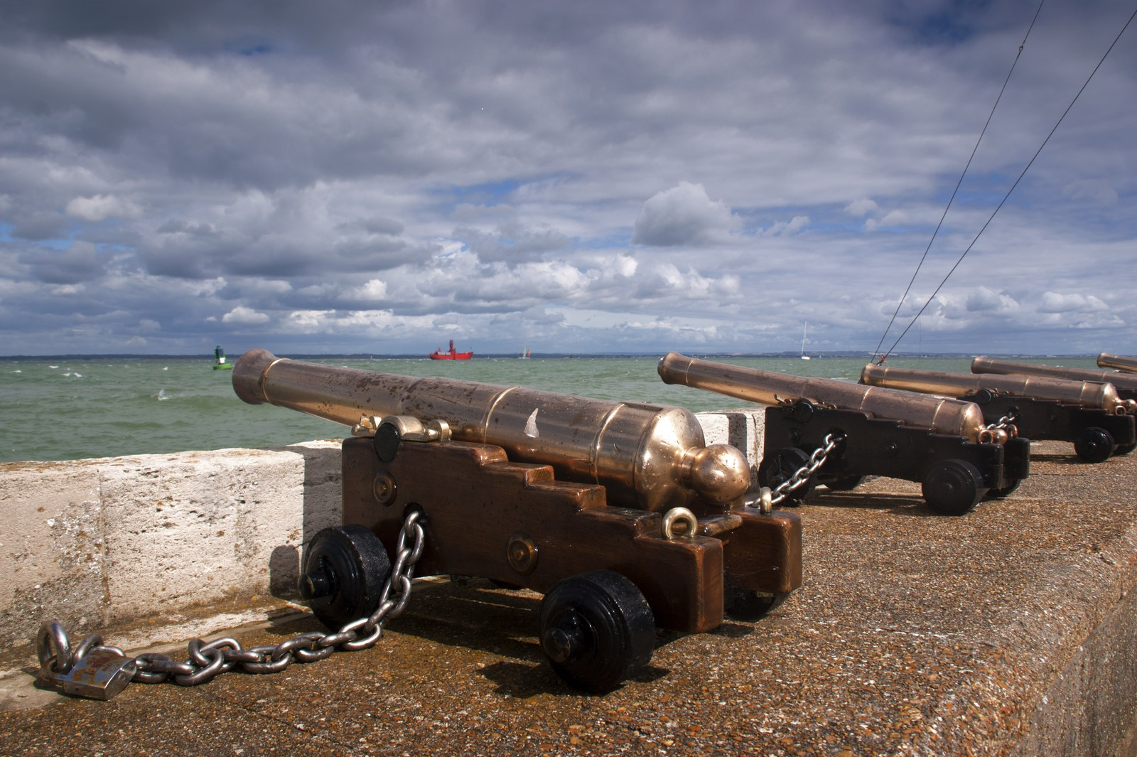 Cowles Castle cannon